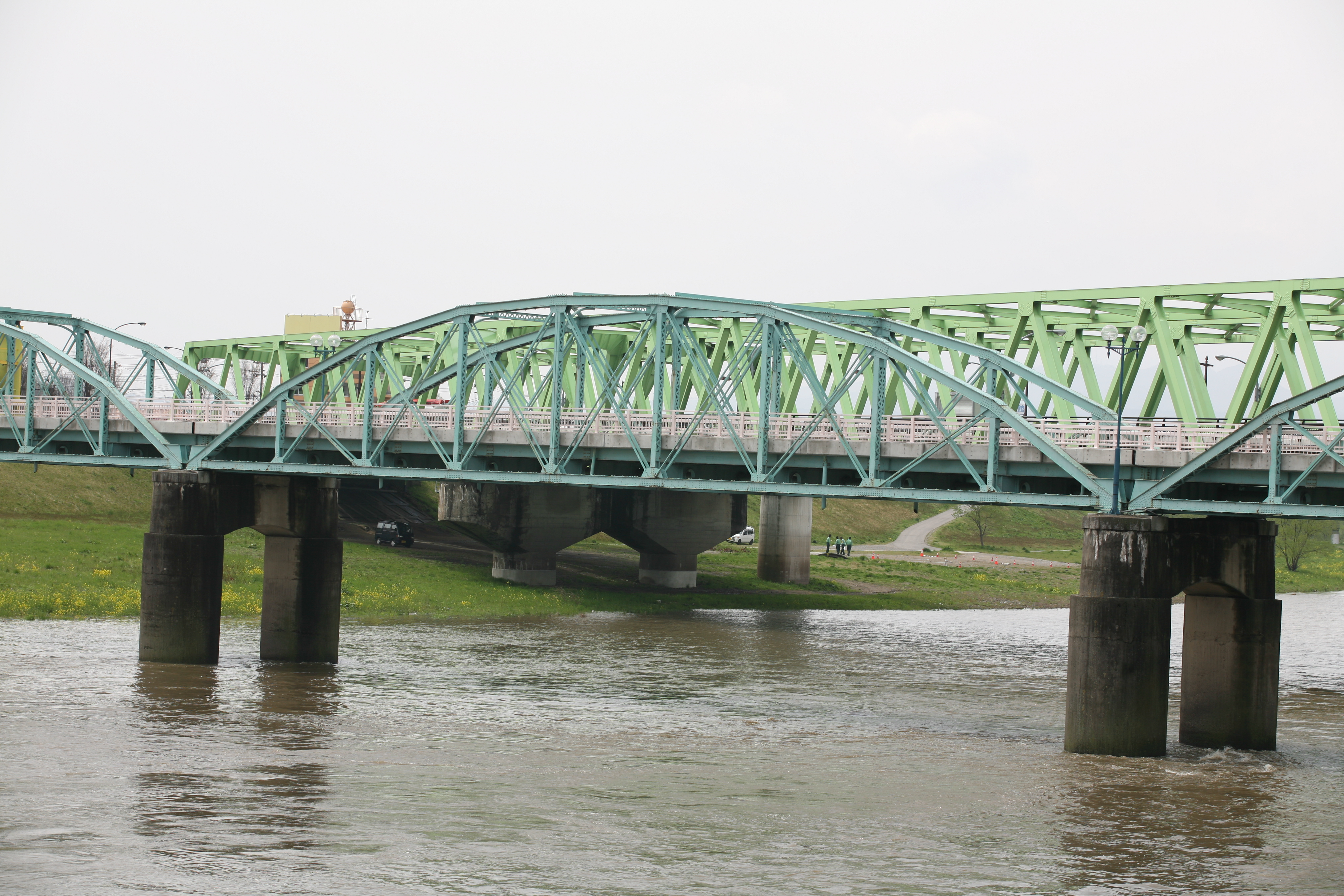 Shorei bridge,Bowstring truss,Fukushima Pref.,Japan.